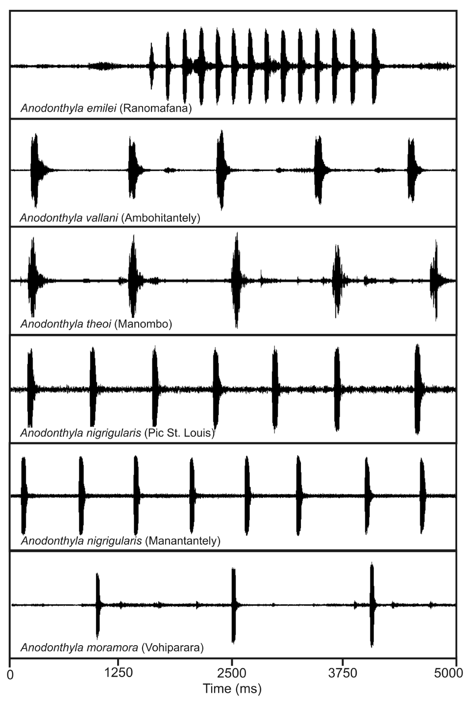 Comparative waveforms of parts of call series of Anodonthyla emilei, A. vallani, A. theoi, A. nigrigularis, and A. moramora at same time scale.